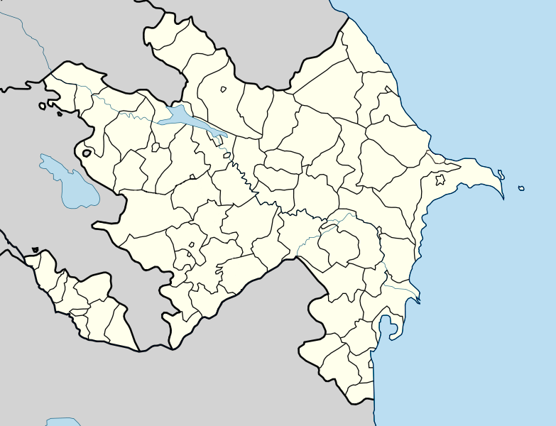 Location map of Azerbaijan. Geographic limits of the map: * N: 42.0° N * S: 38.2° N * W: 44.5° E * E: 51.0° E Made with Natural Earth. Free vector and raster map data @ .